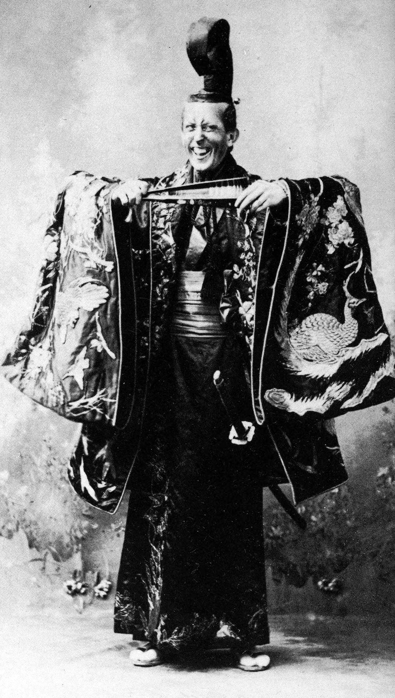 R. Scott Fishe in the title role of The Mikado, 1895 revival